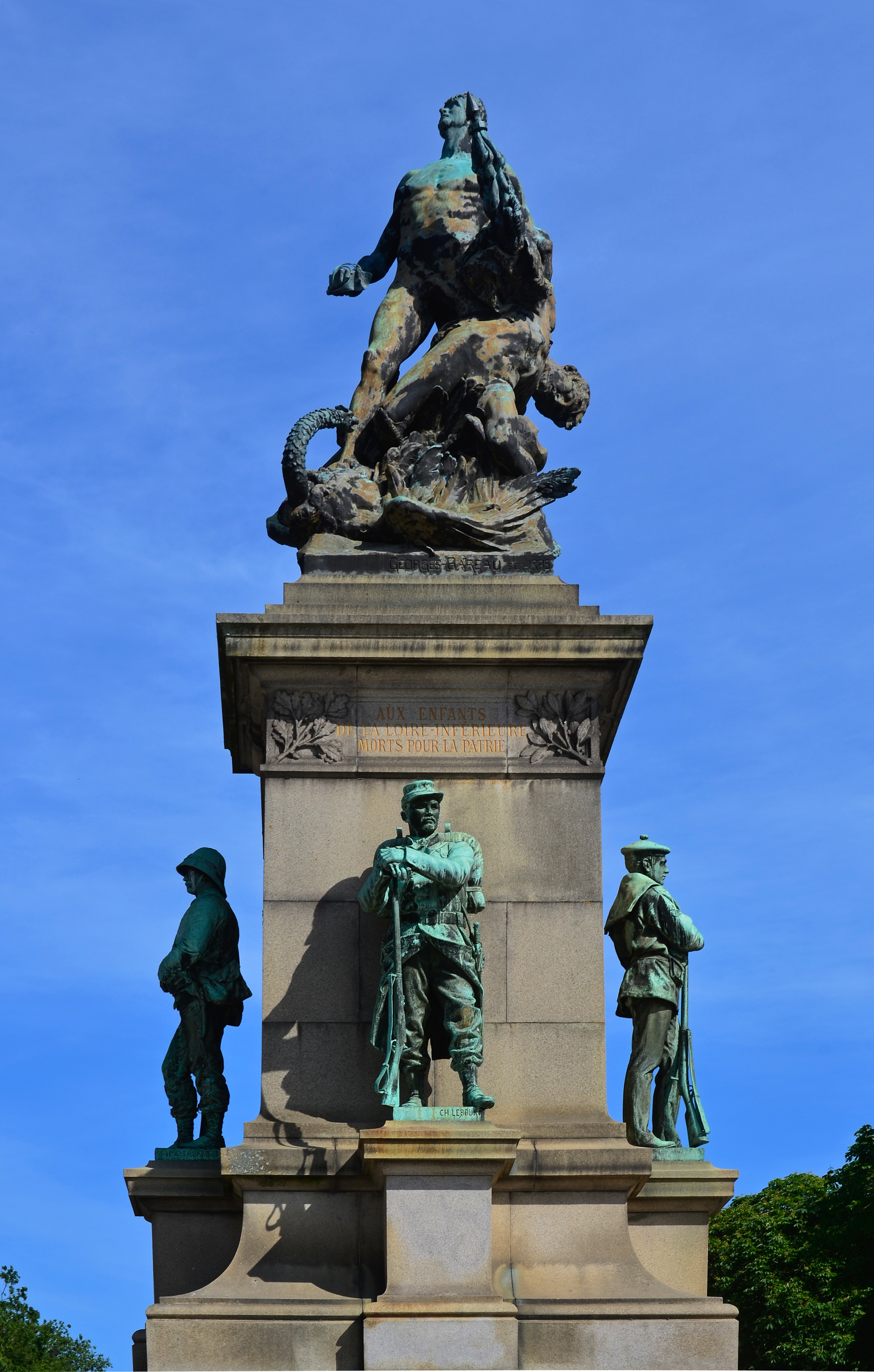 Franco-Prussian War memorial at the entrance to the Cours Saint-Pierre in Nantes, France